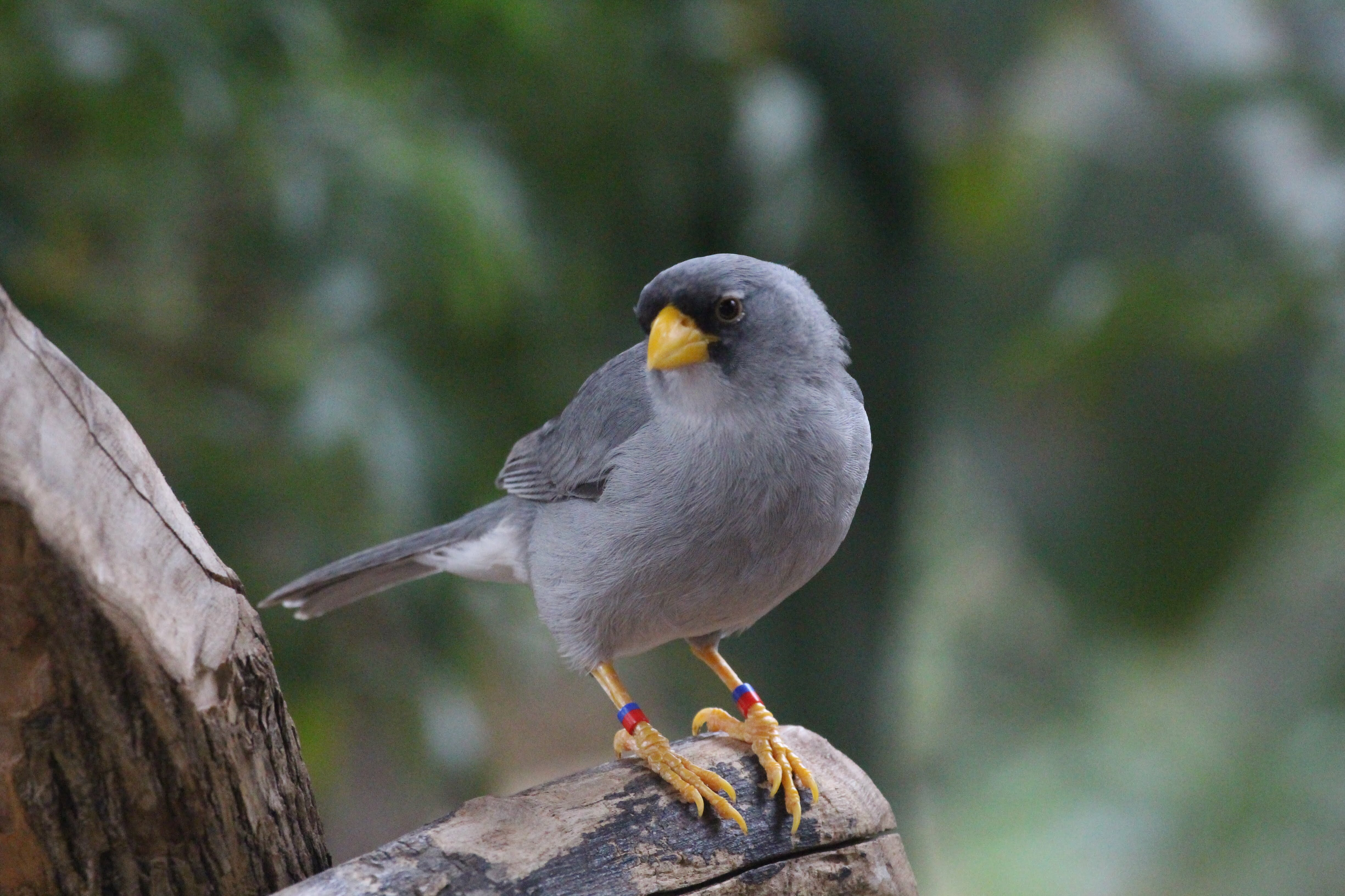 Piezorina cinerea